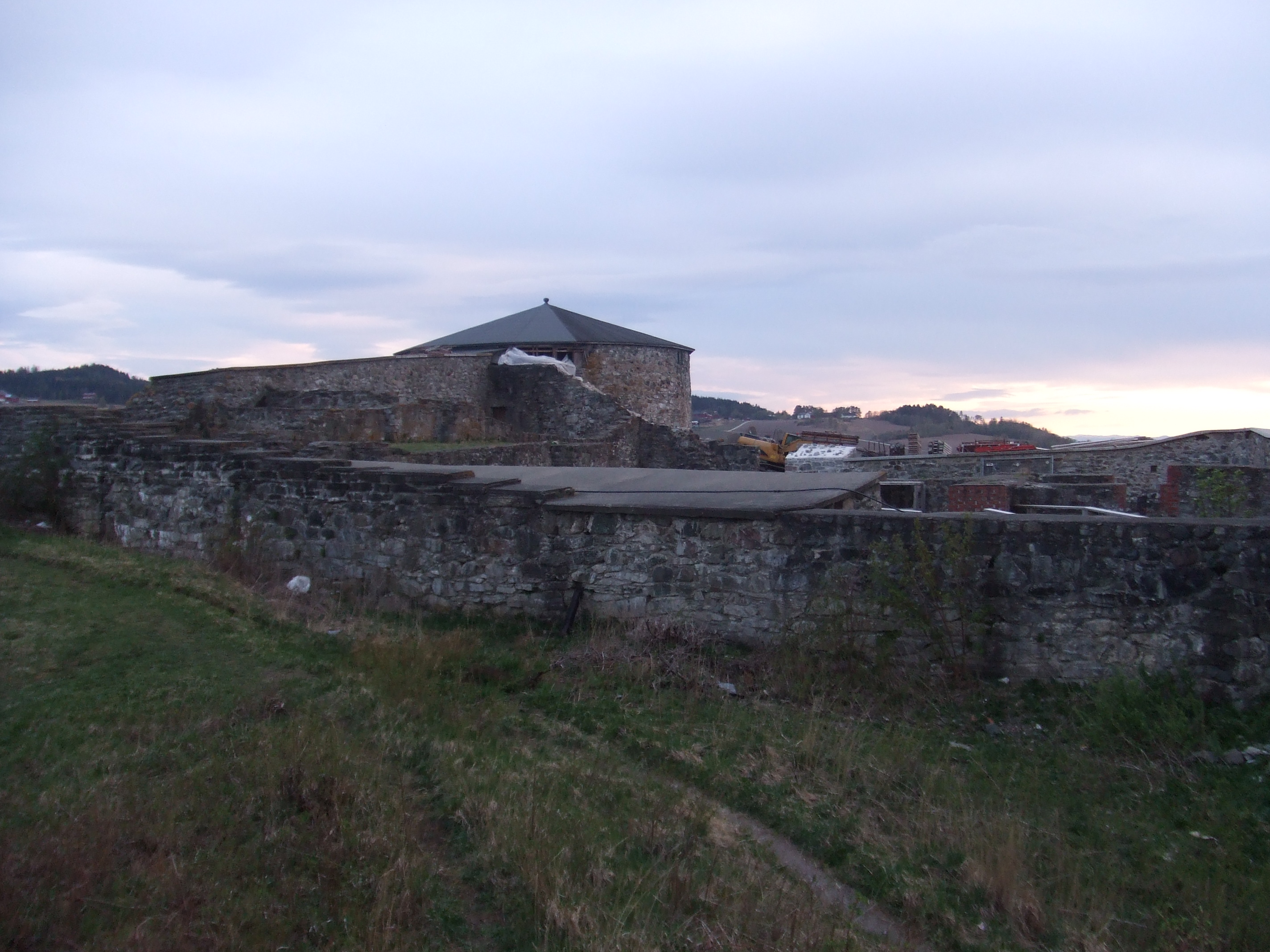 Overview of the medieval castle ruins of Steinvikholm in Stjørdal, Norway.